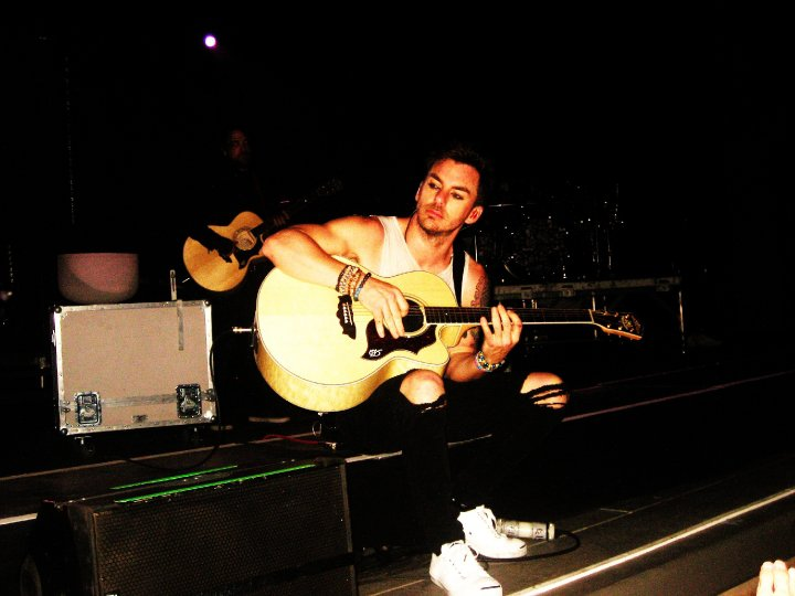 Thirty Seconds to Mars live in Tempe, AZ, on May 16, 2010.